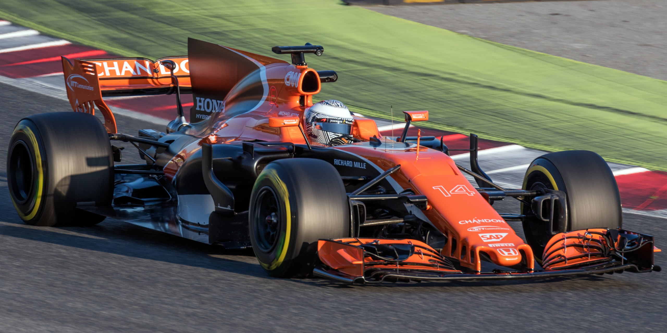 Formula One 2017 Catalonia test (27 February-2 March): Fernando Alonso (McLaren)